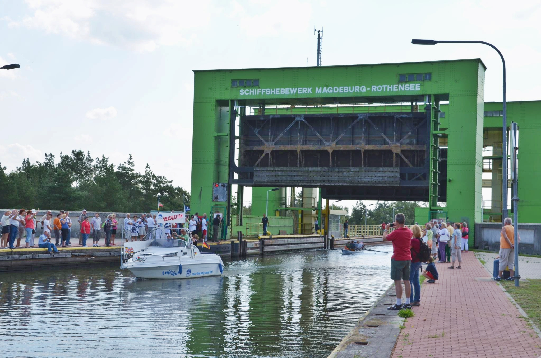 Rothensee boat lift.